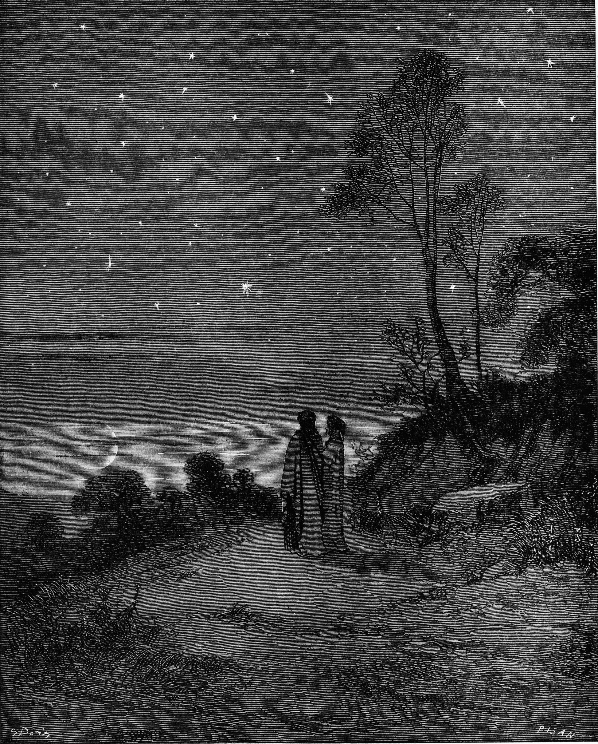 High resolution scan of engraving by Gustave Doré illustrating Canto II of Divine Comedy, Inferno, by Dante Alighieri. Caption: The Darkening Sky of the First Night